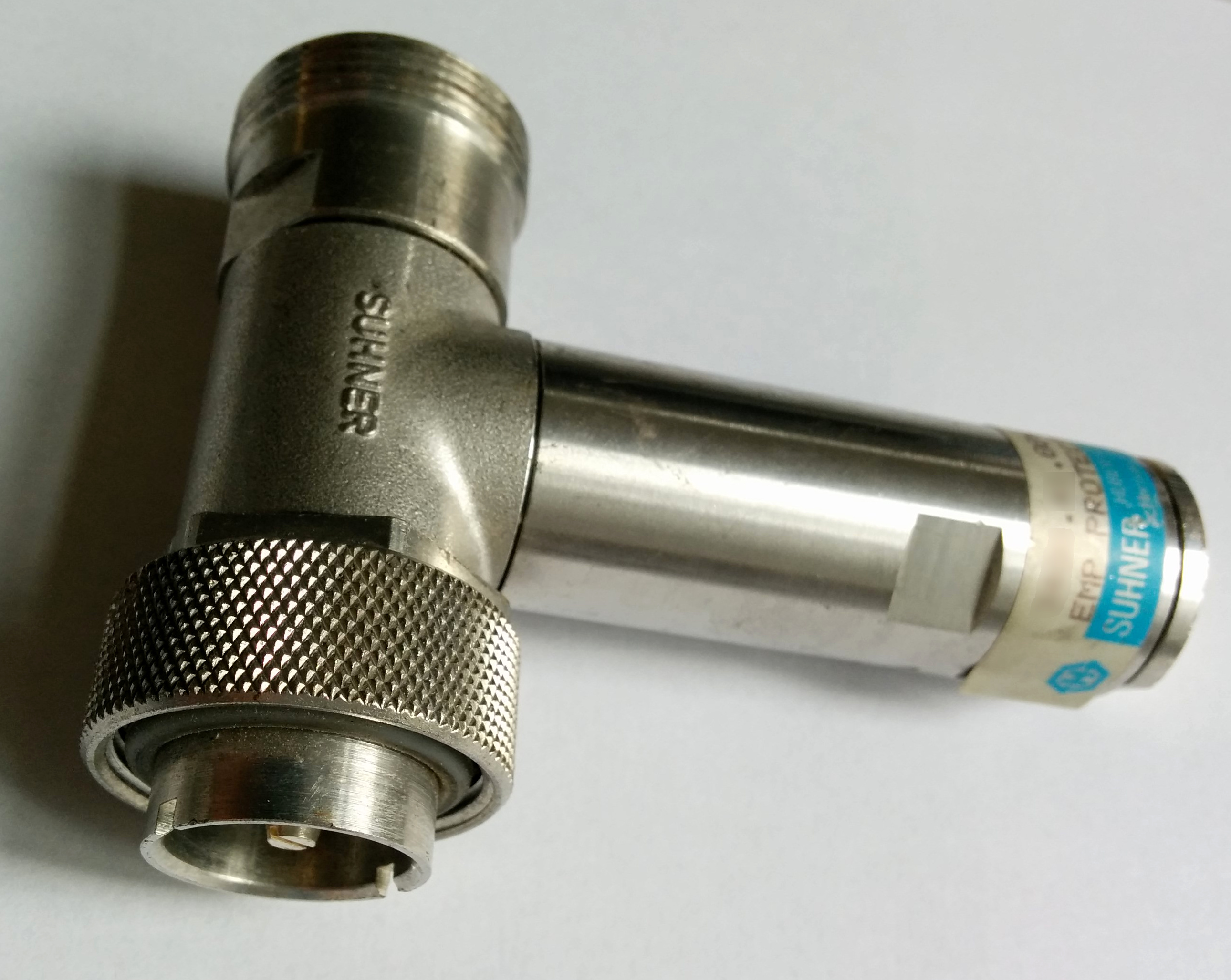 A lightning EMP protector (surge arrestor) with 7/16" thread coaxial connectors with a quarter-wave λ/4 shorting stub (QWS). Devices like this are used in Base Transceiver Stations (BTS). Since lightning interferences have a relative low frequency spectrum the λ/4 shorting stub act as a short circuit, conducting the lightning current to the ground. This quarter-wave shorting stub has a centre operating frequency of 980 MHz, the stub is approximately 7 cm in length